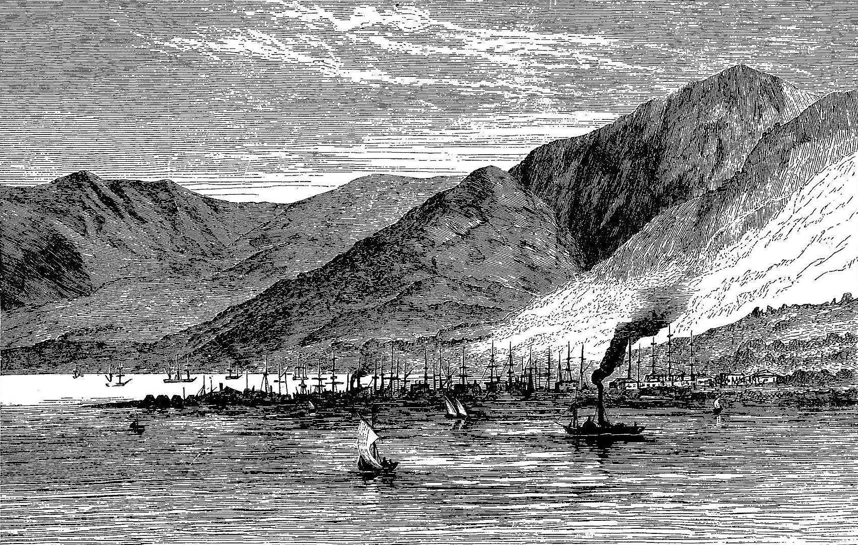 Port of Batum (Roskoschny, 1884)